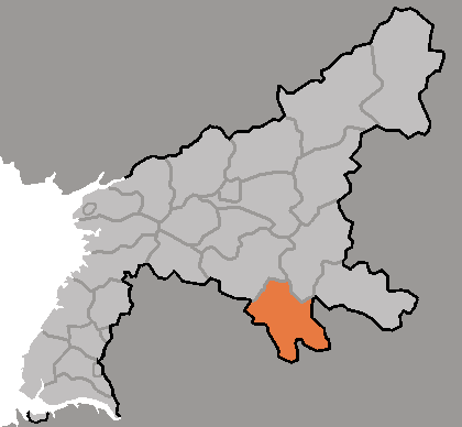 Map of Chongjin, Hoichang-namdo, DPRK, 2006